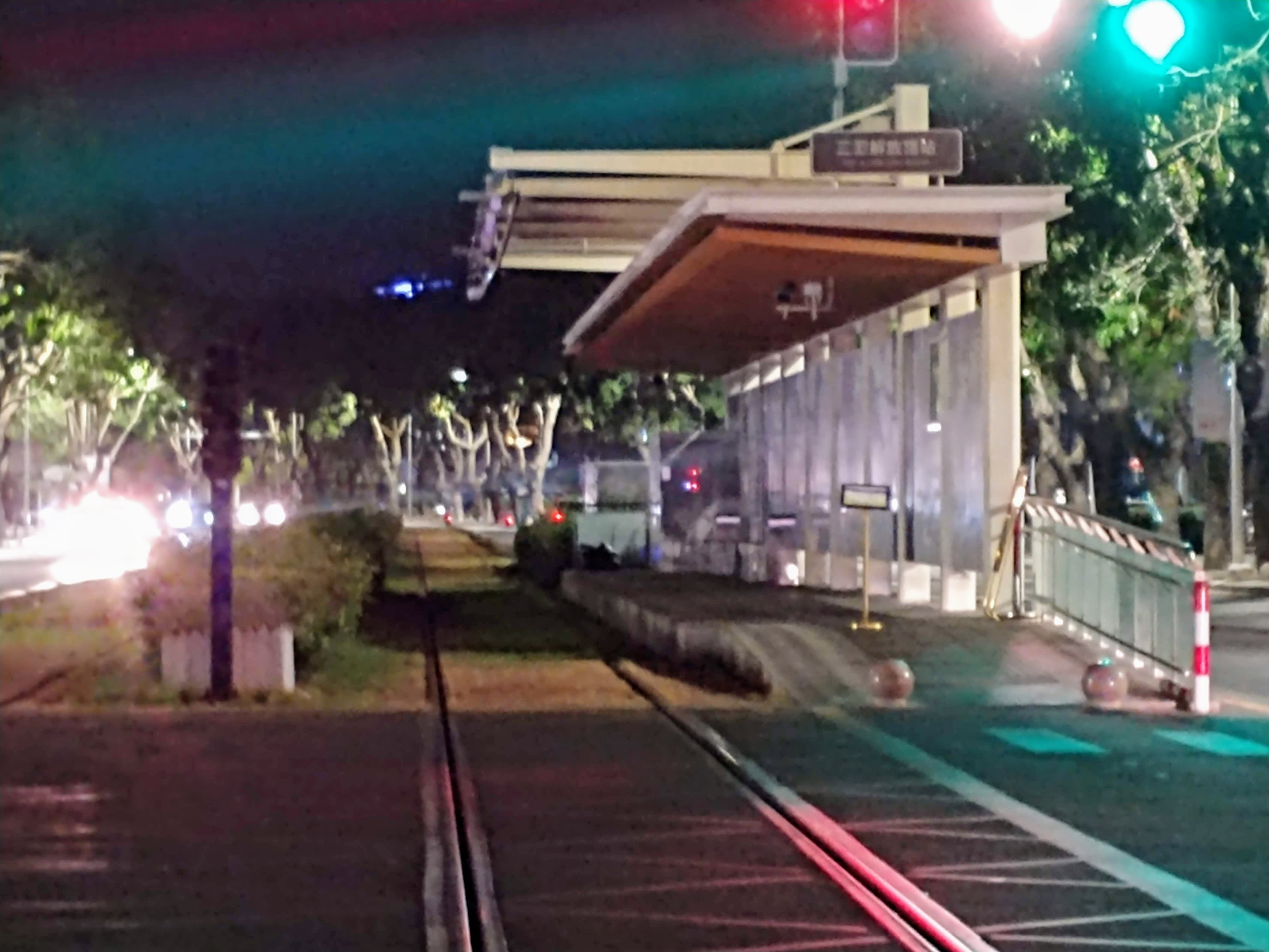 Sanya Tram (Jiefang Road Station)_02